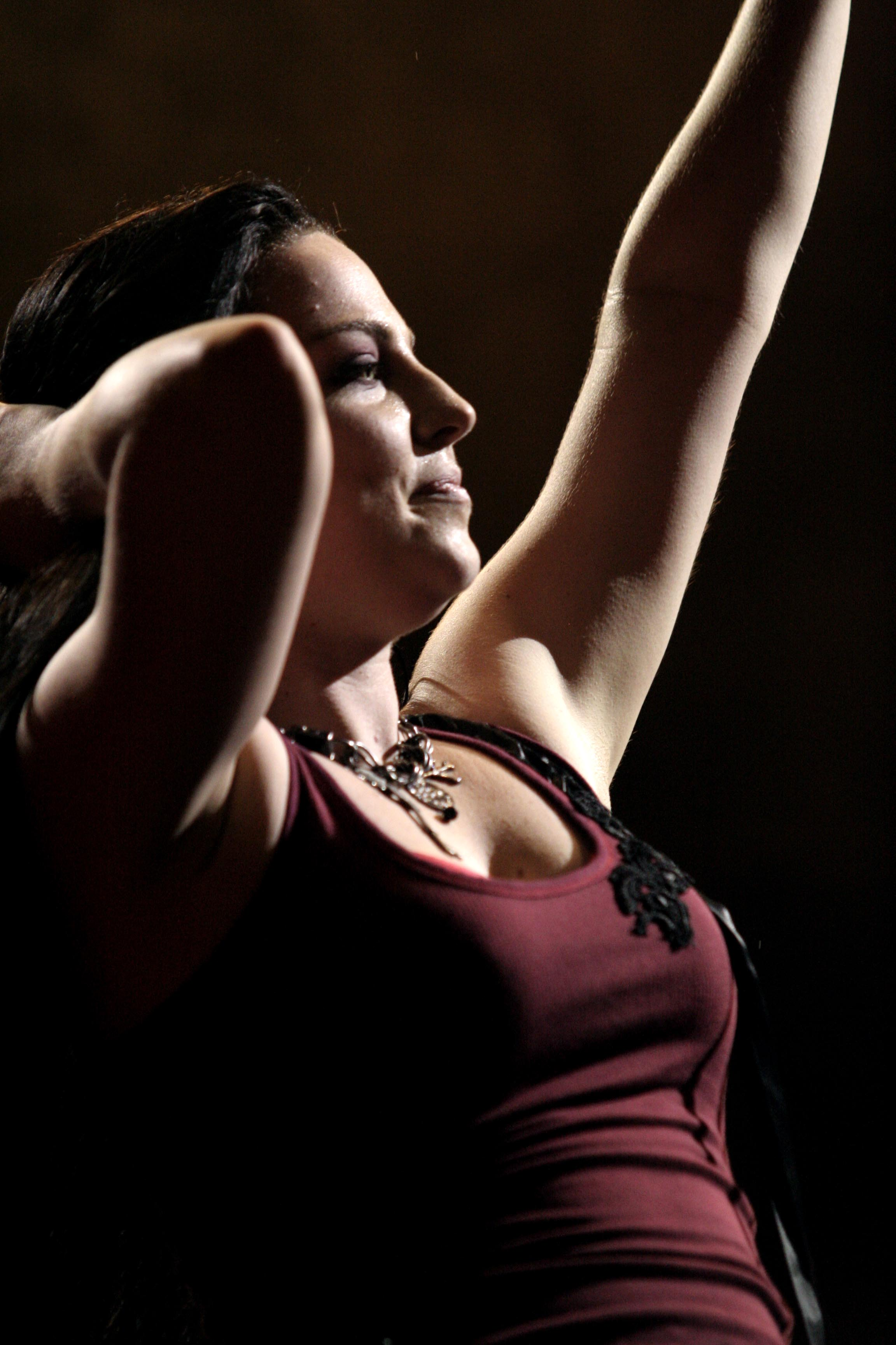 Amy Lee of Evanescence singing at a concert in São Paulo, Brazil.